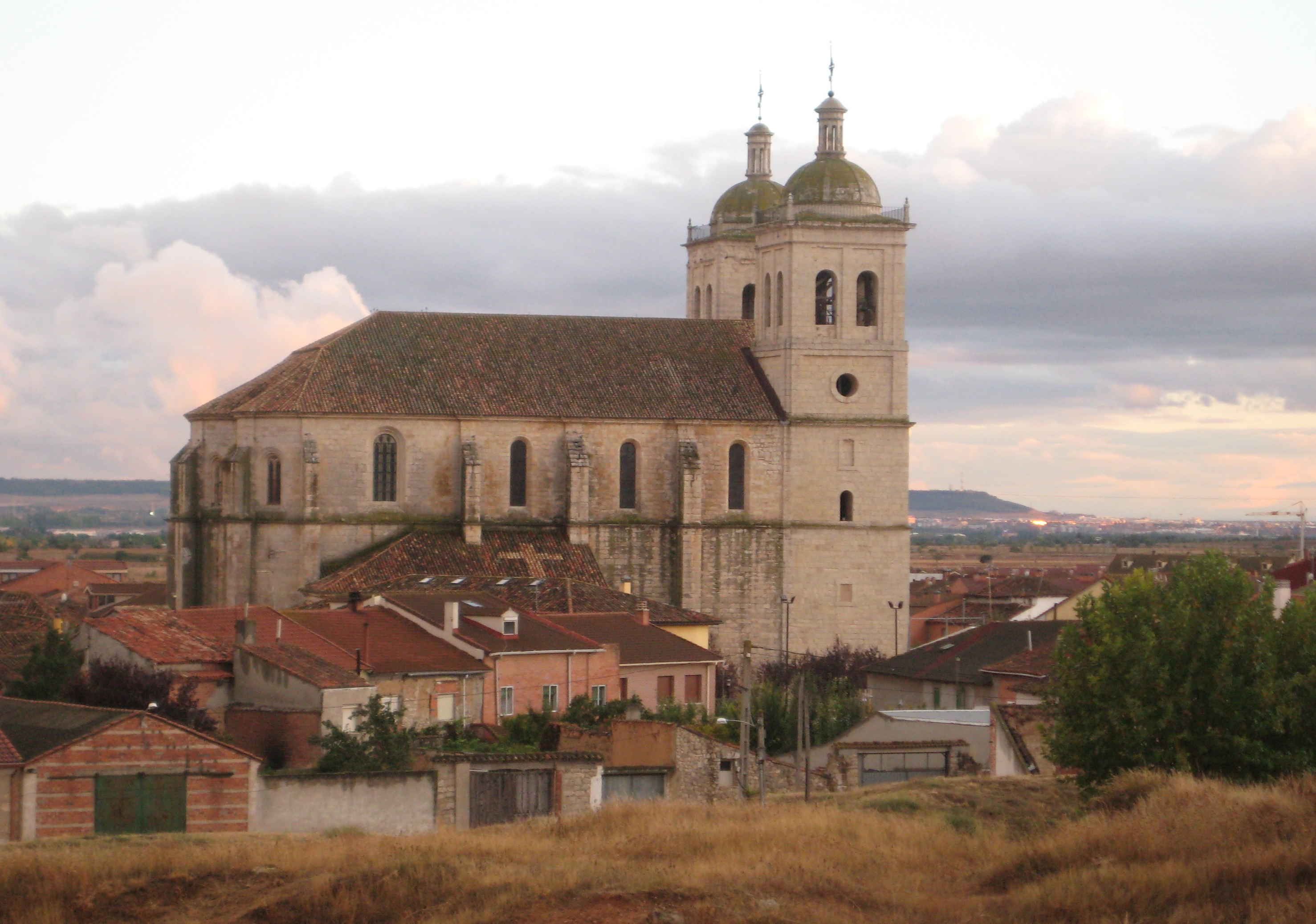 Saint James church in Cigales, Valladolid, Spain.